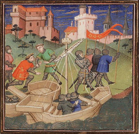 Decoration: 1 two-column miniature (185x200 mm with border decoration), 19 column miniatures (110/70x90/85 mm) with border decoration, 1 illustration in the margin (coat of arms); decorated initials with border decoration (ff. 3r, 10r, 15r, 19r, 20r, etc.)